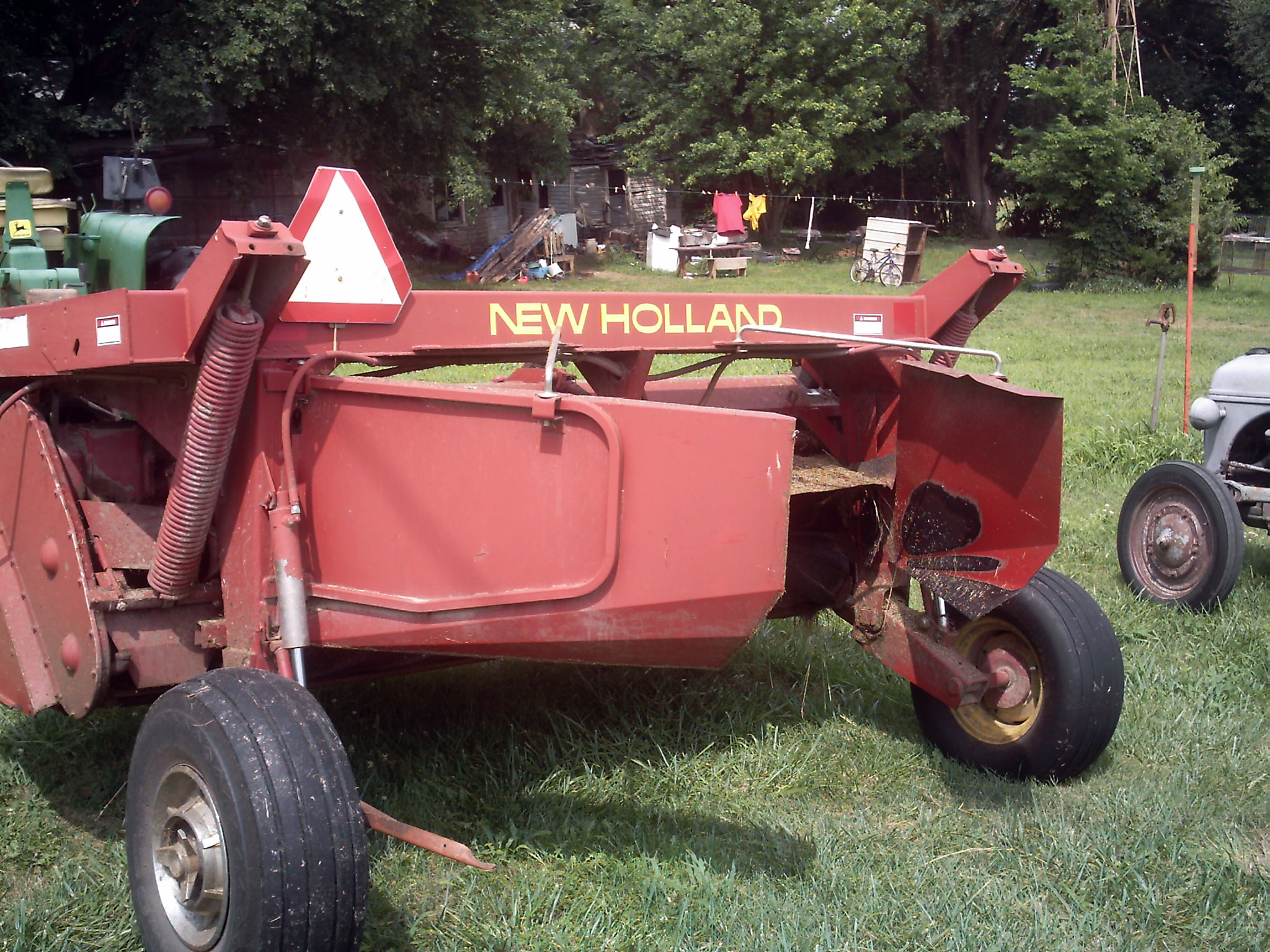 New Holland Discbine 411 mower-conditioner (rotary/disc mower combined with a conditioner, the machine has swathing functionality); Osage County, Kansas, USA